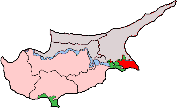 Map of Cyprus showing Greek Cypriot Part of the Famagusta district. The green areas are the UK Sovereign Base Areas, the blue area is the UN buffer zone. Areas north of the buffer zone are controlled by the Turkish Republic of Northern Cyprus, areas south are controlled by the Greek Cypriot government.